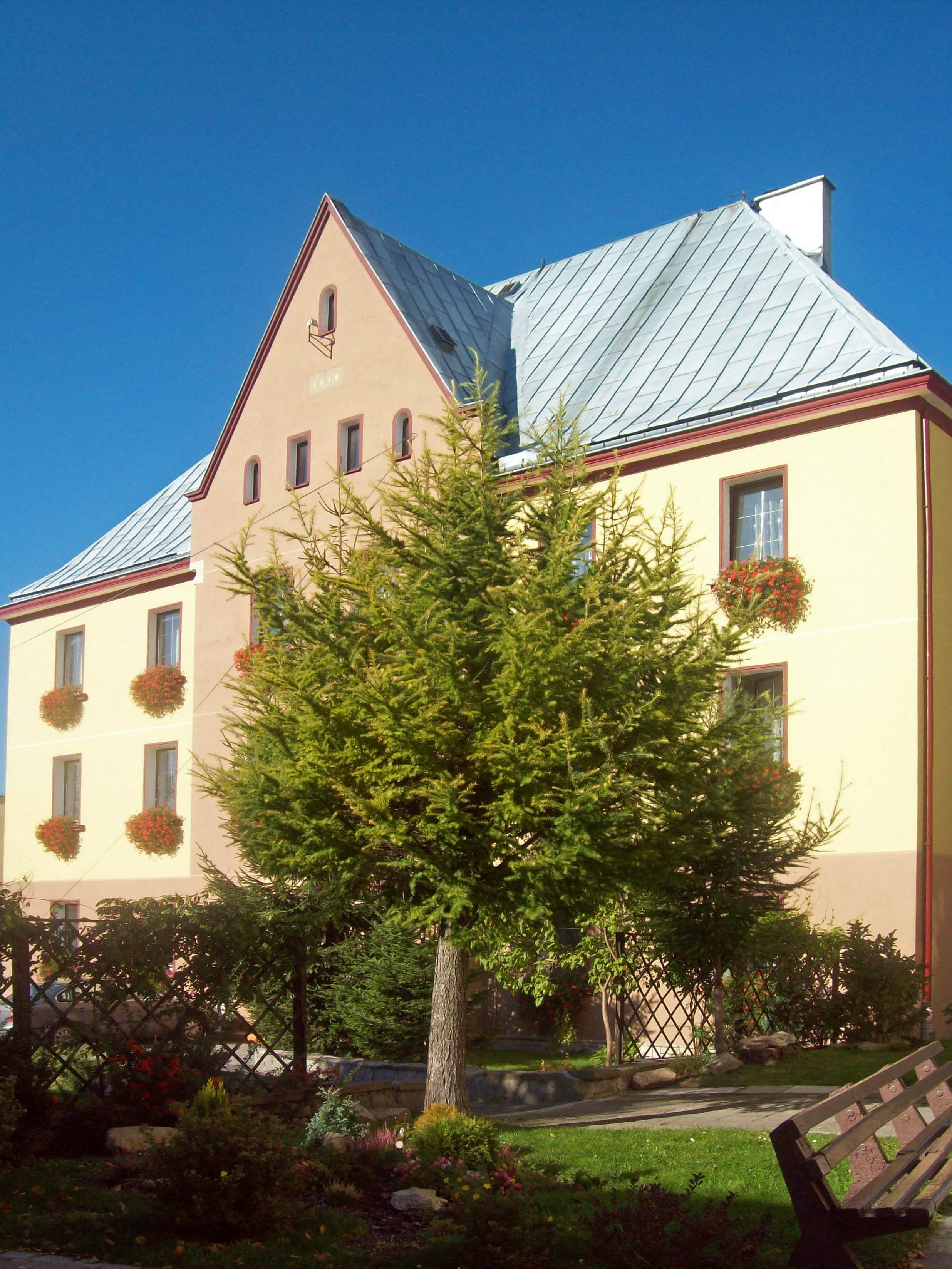 Presbytery Lądek-Zdrój and head of the deanery.